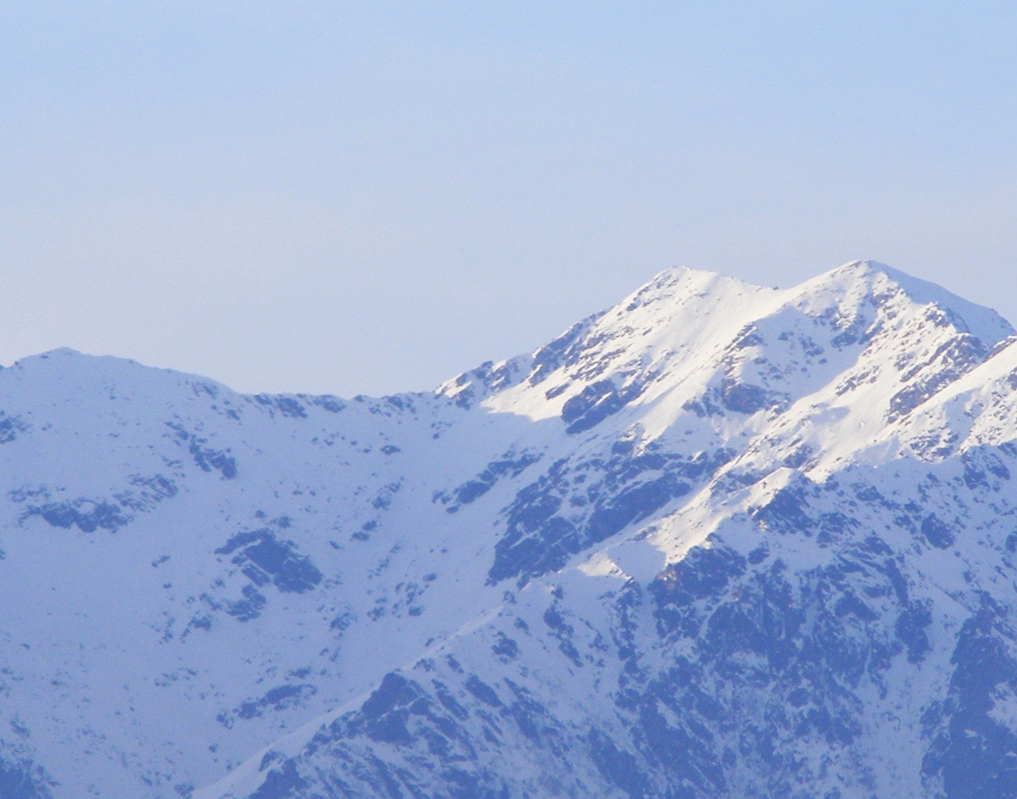 Mount Tre Vescovi (BI-VC-AO, Italy) as seen from Colma di Biella